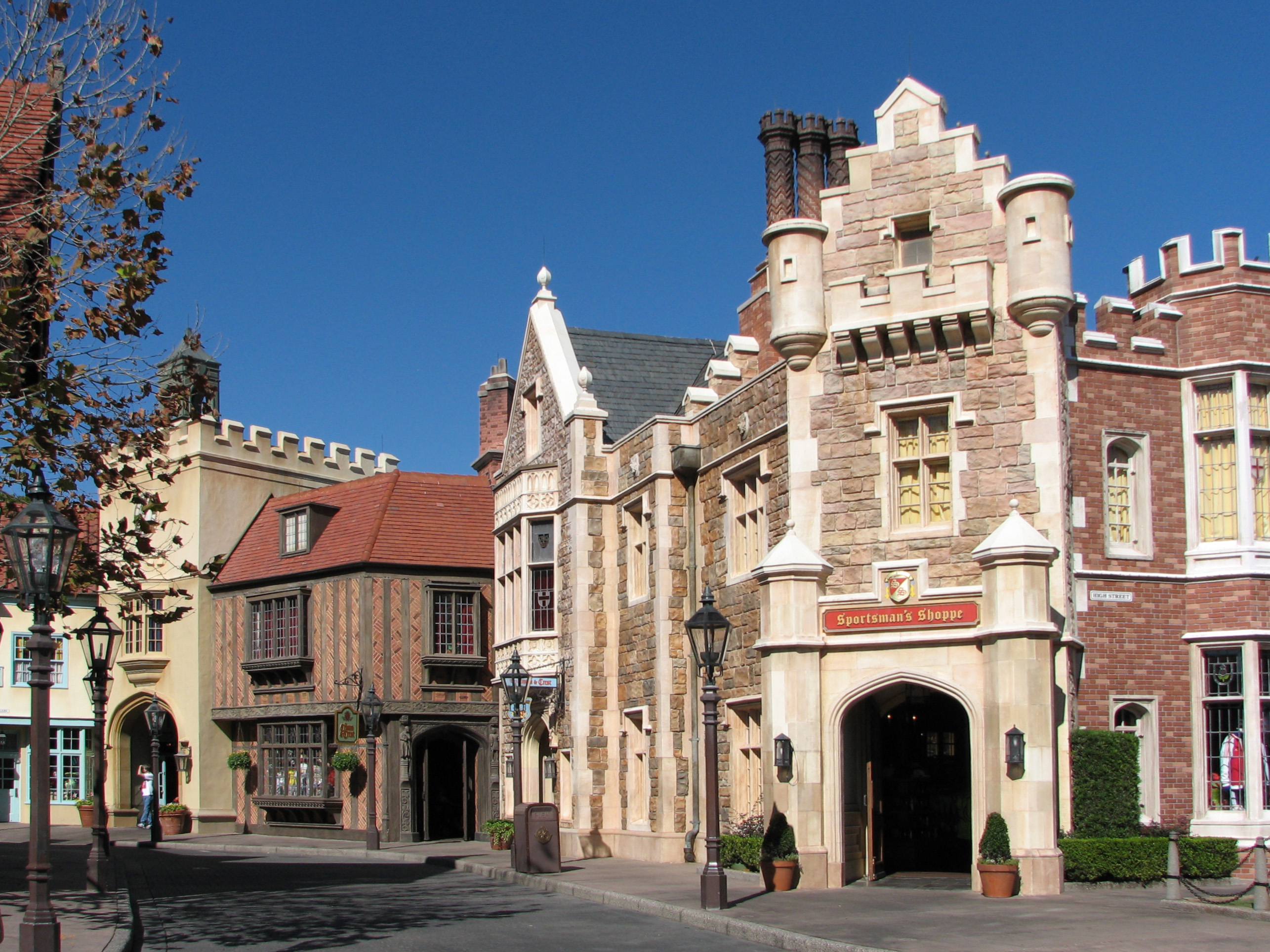 The street of the United Kingdom at Epcot in Walt Disney World. Each building is supposed to represent a century of British history, with the front building of this photo corresponding to the most recent century.